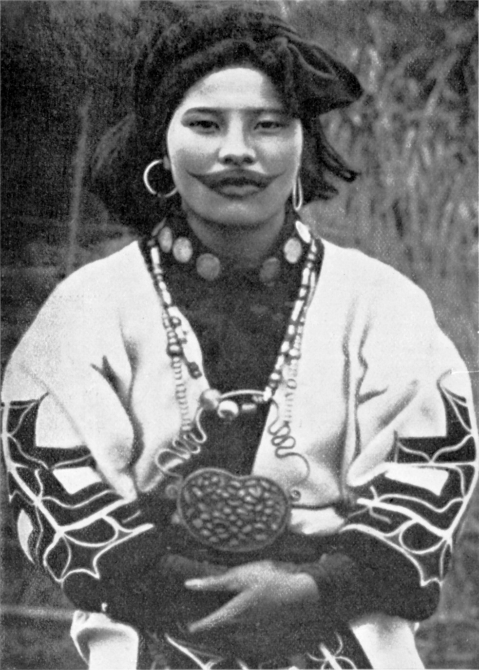 Figure 263 Ainu Beauty (collection Bälz).